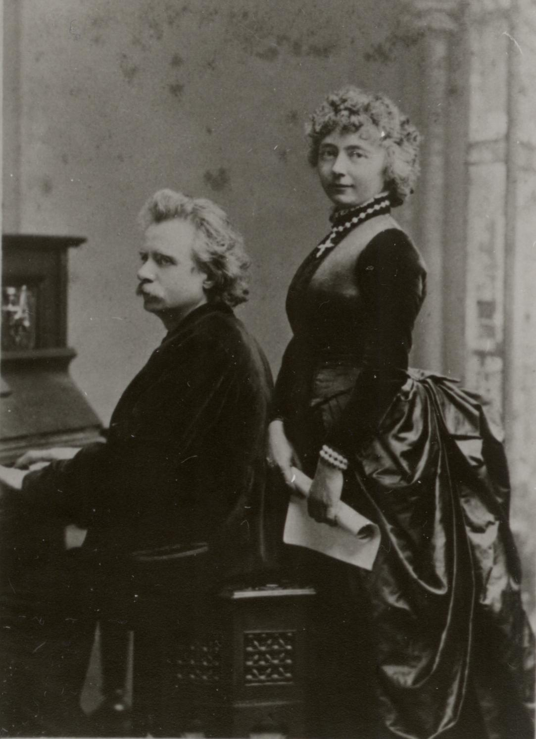 Artist: Hansen & Holter Date/place: 1888, unknown location Subject: Edvard and Nina Grieg at consert Medium: photographic positive and negative, B&W Notes: also exists as a reproduction Persistent URL: [#//nettbiblioteket.no/grieg-samlingen/engelsk/grieg_intro_eng.html” Original belongs to the Edvard Grieg Archives at Bergen Public Library]